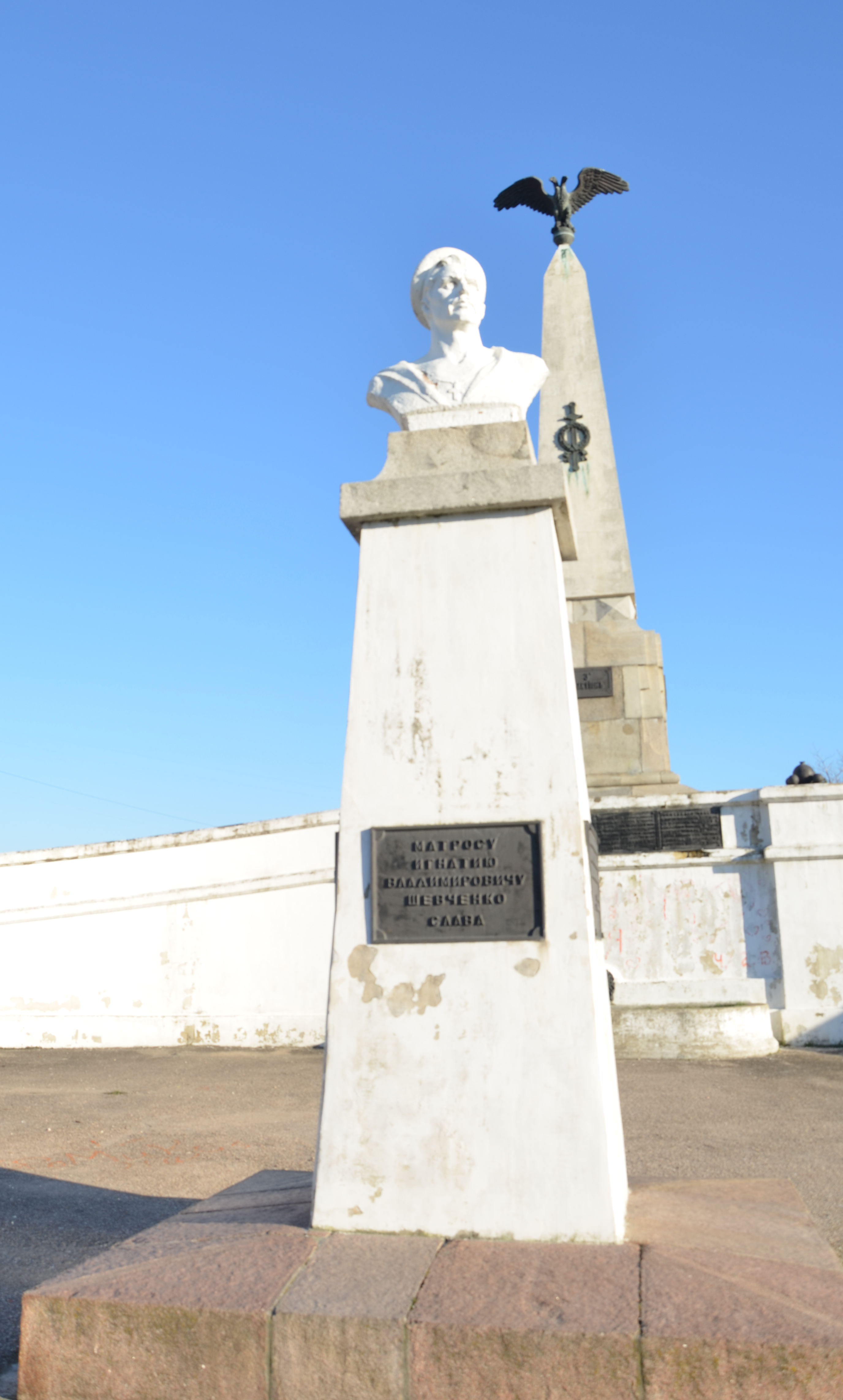 The statue of Ignatius Shevchenko on the third Bastion